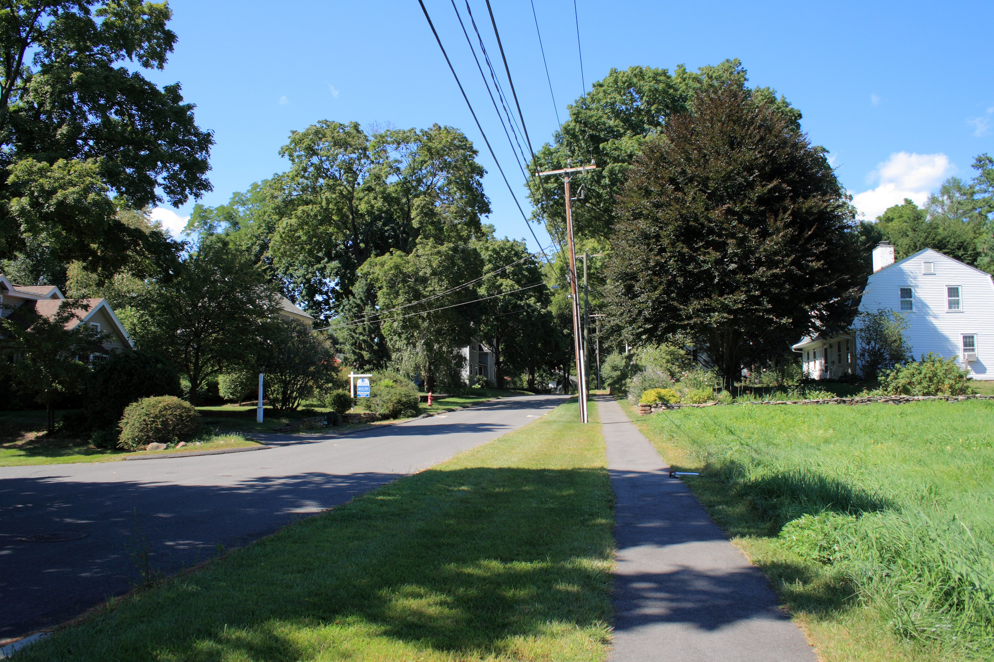 A street view of Colton St. in Farmington, Connecticut, part of the Farmington Historic District, a Registered Historic Place